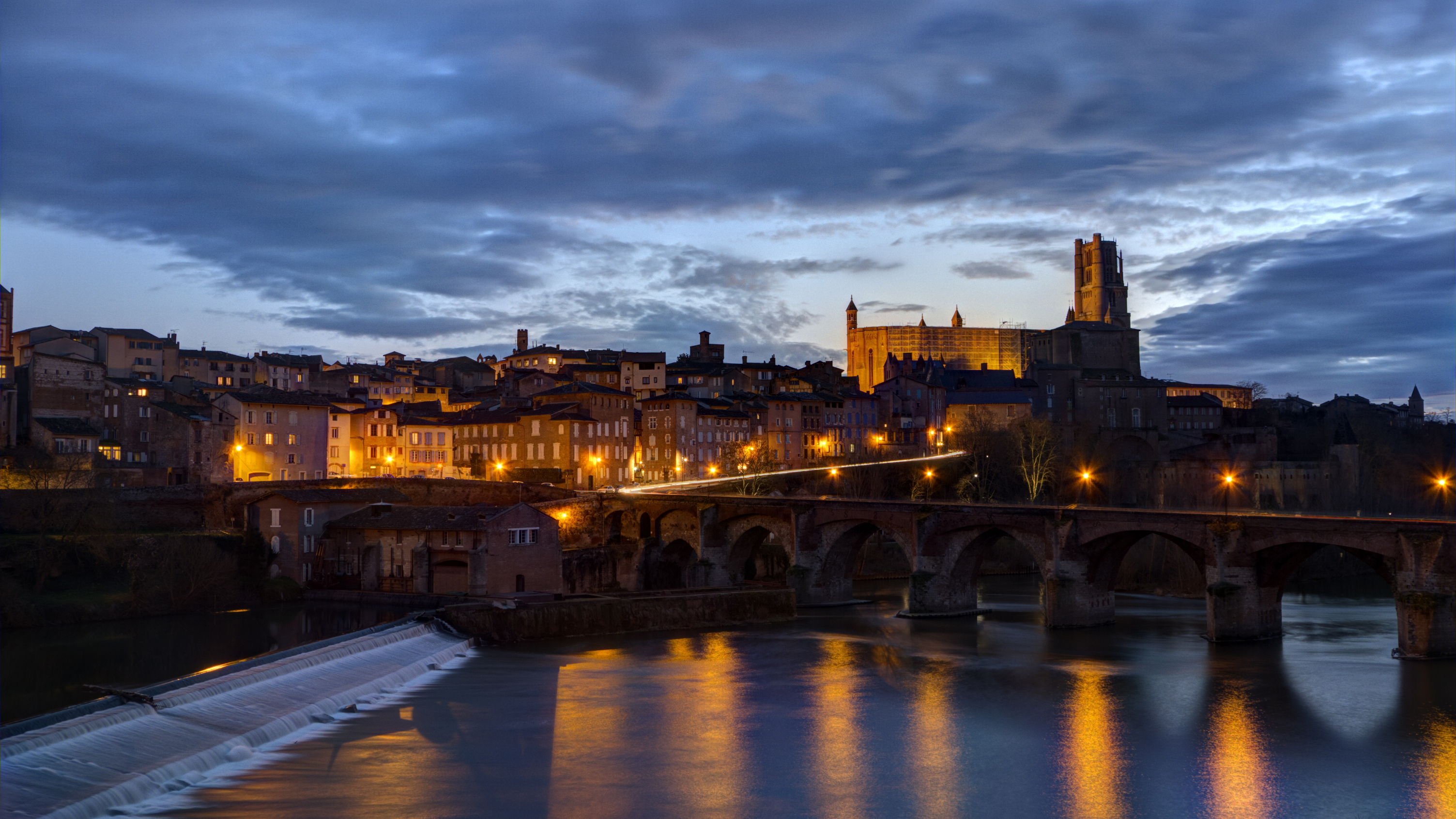 Albi and its Cathedrale at Dusk.